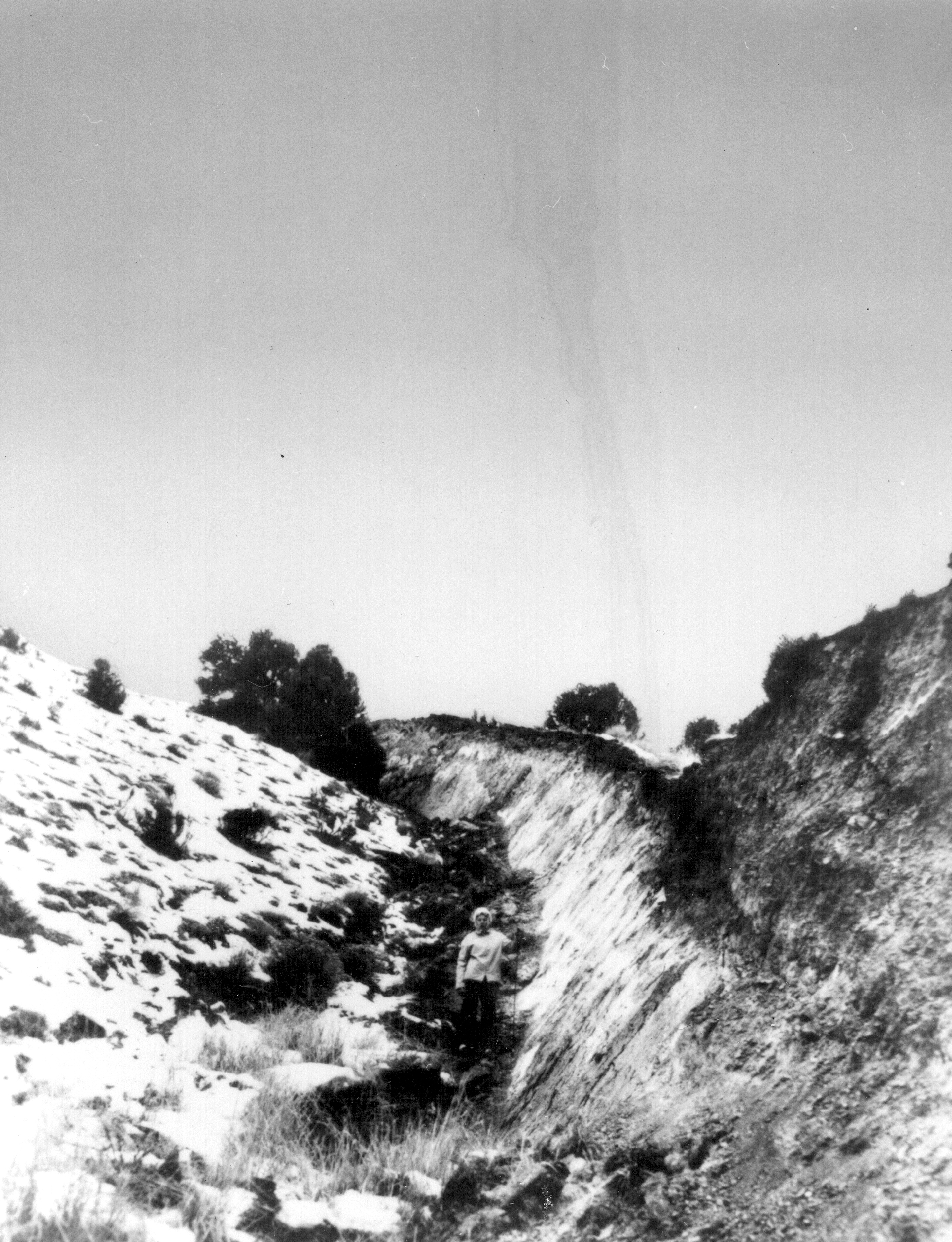 The description on the website is: "Nevada Earthquake December 16, 1954. Fault scarp near Fairview Park(sic) resulting from the earthquake. Photo by H. Benioff. Pages 26-27, Earthquake Information Bulletin, v.6, no.6." Note that the location of the photo is near Fairview Peak, not Park. The source document at states "Fault scarp near Fairview Peak, Nev., resulting from the earthquake of December 16, 1954. (Photograph by Hugo Benioff.)"